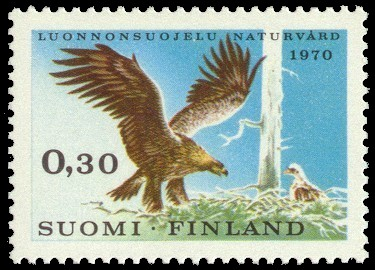 Postage stamp depicting a Finnish Aquila chrysaetos - golden eagle